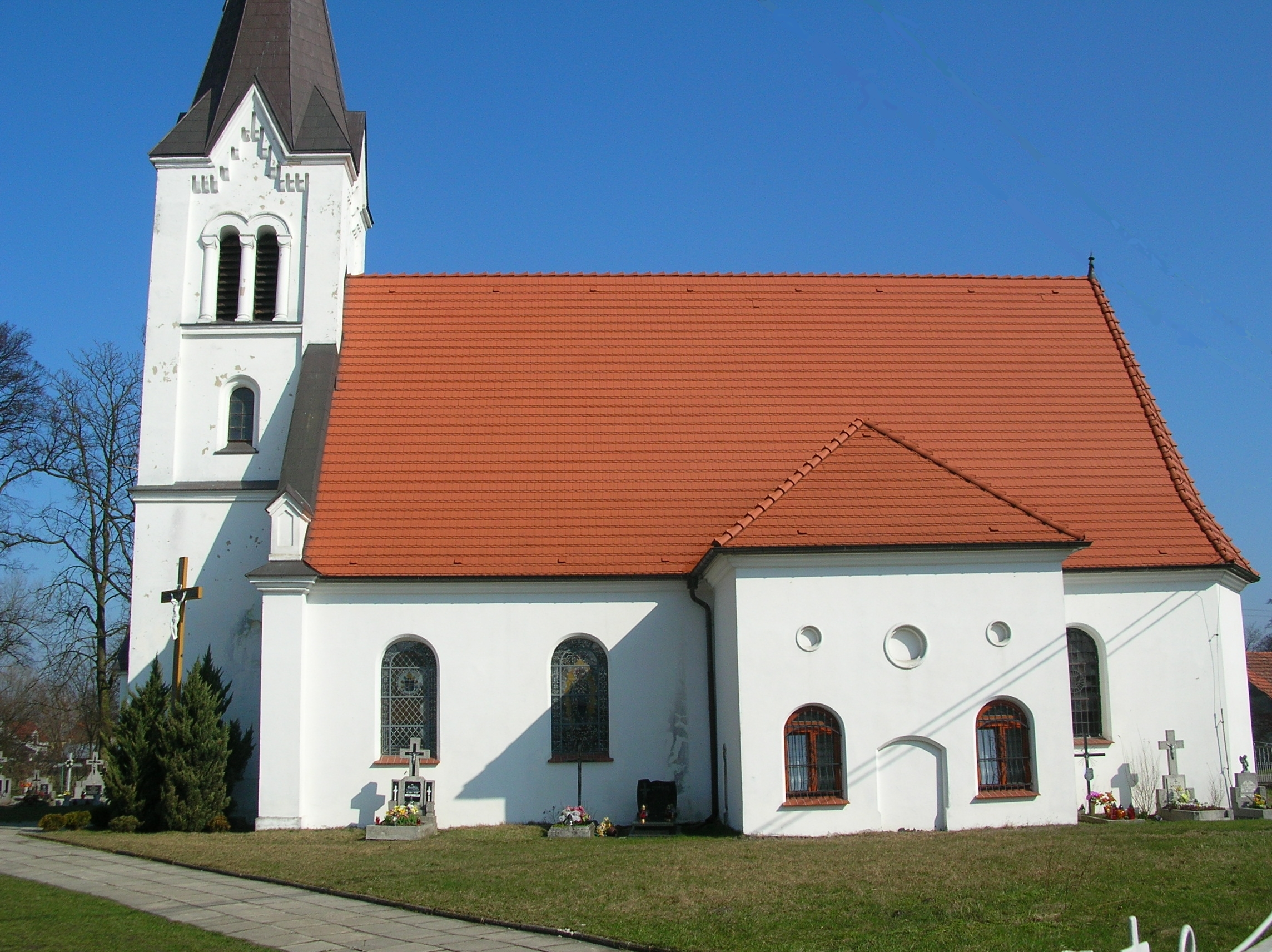 Church in Borowa Oleśnicka